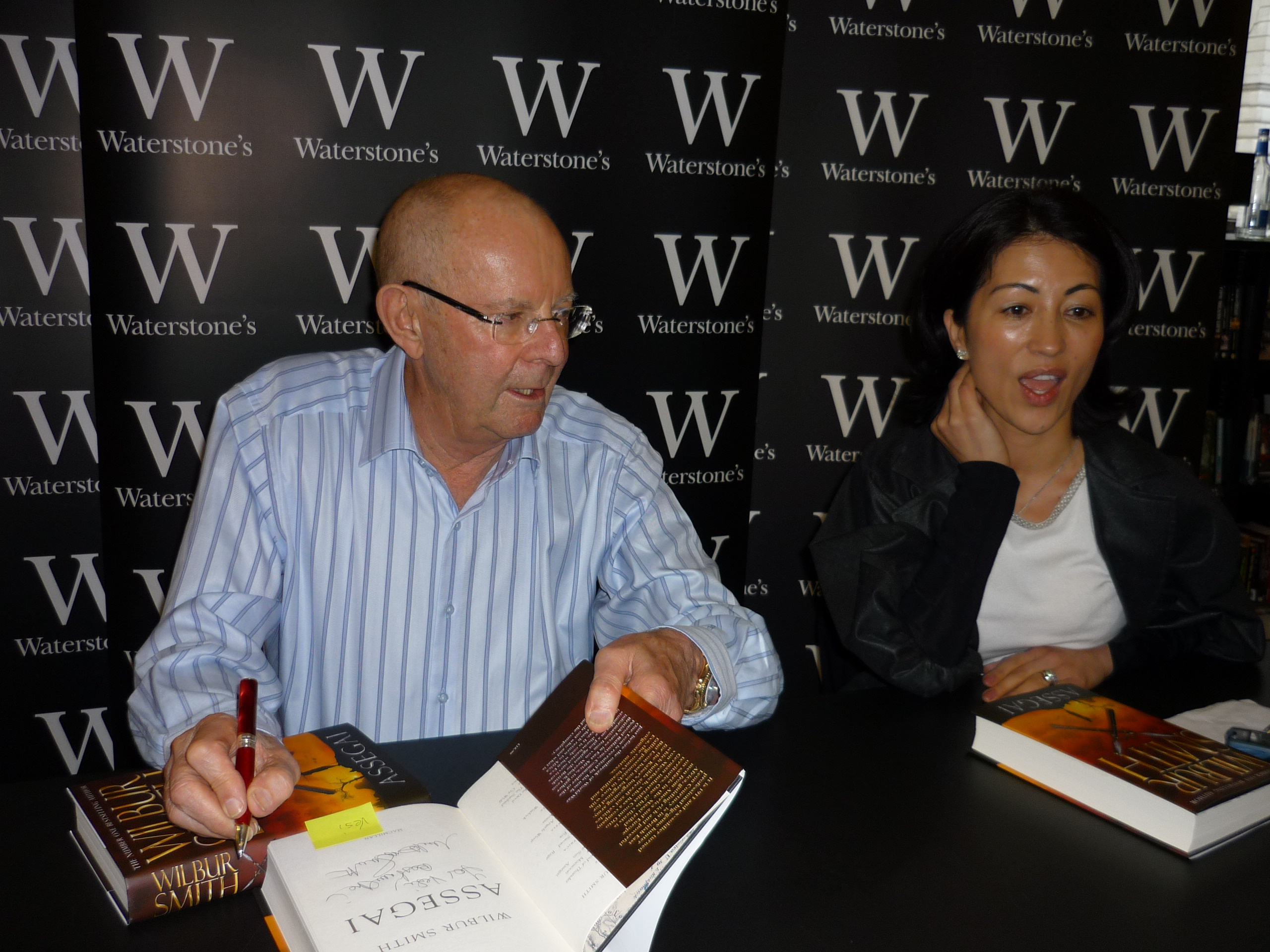 Wilbur Smith signing copy of "Assegai" - april 2009; London